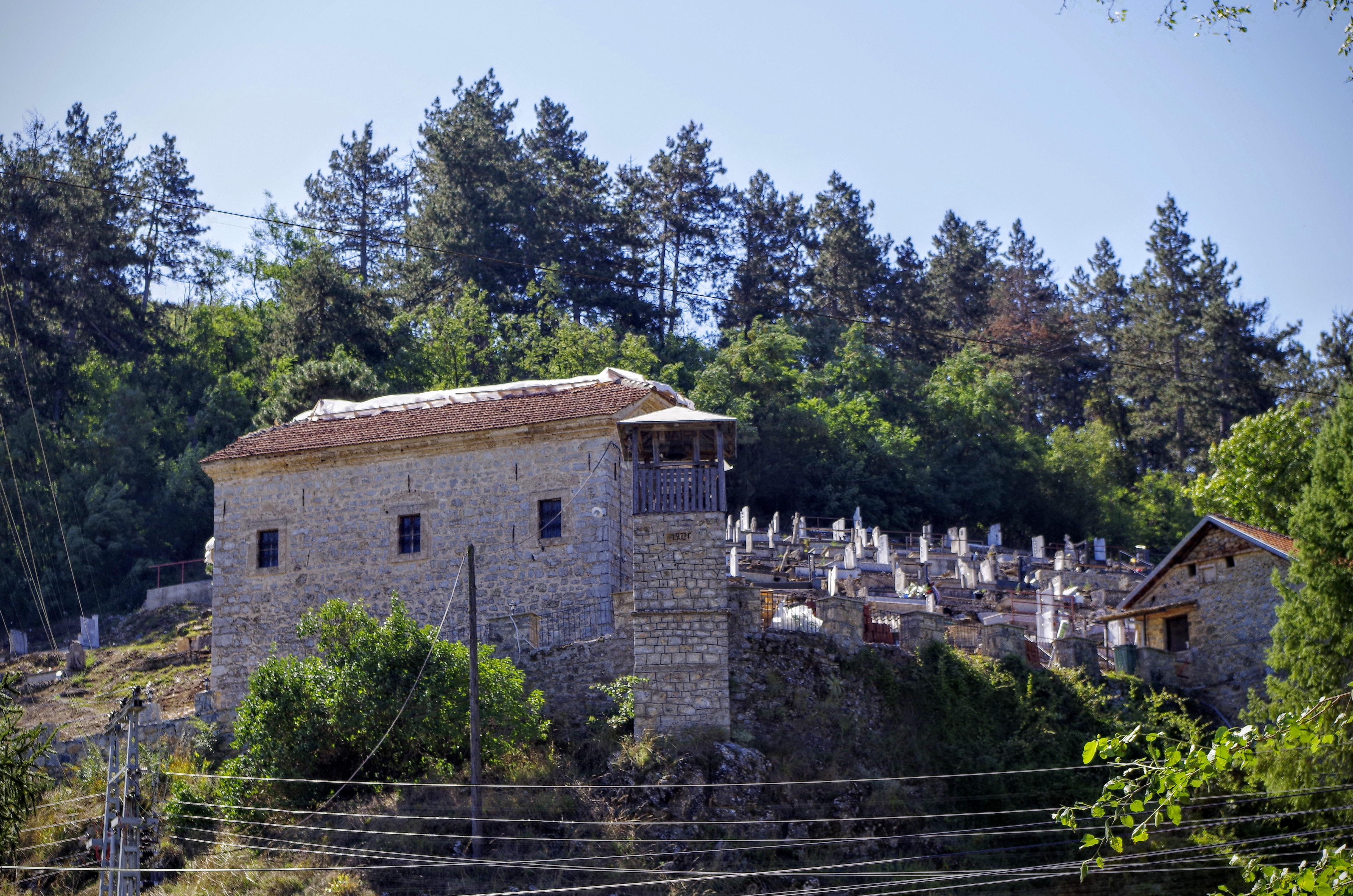 View of St. George Church in the village Zlesti, Macedonia